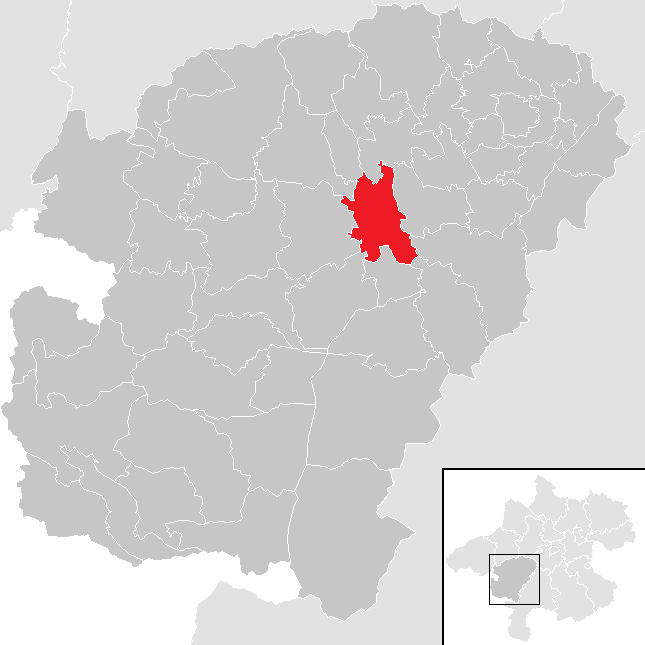 District Vöcklabruck